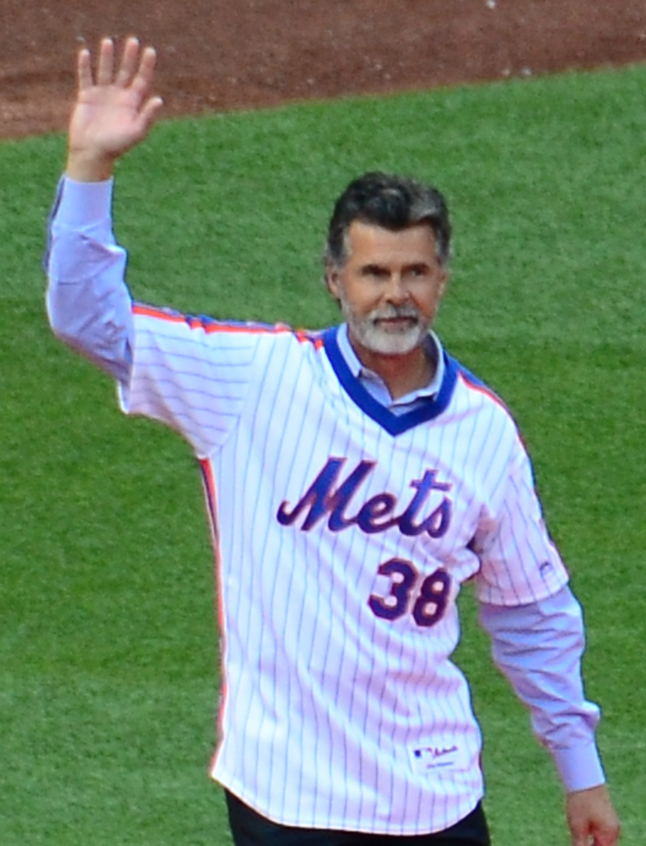 Rick Aguilera, 1986 World Champion with the New York Mets, appears at the 30th anniversary event, May 28, 2016.